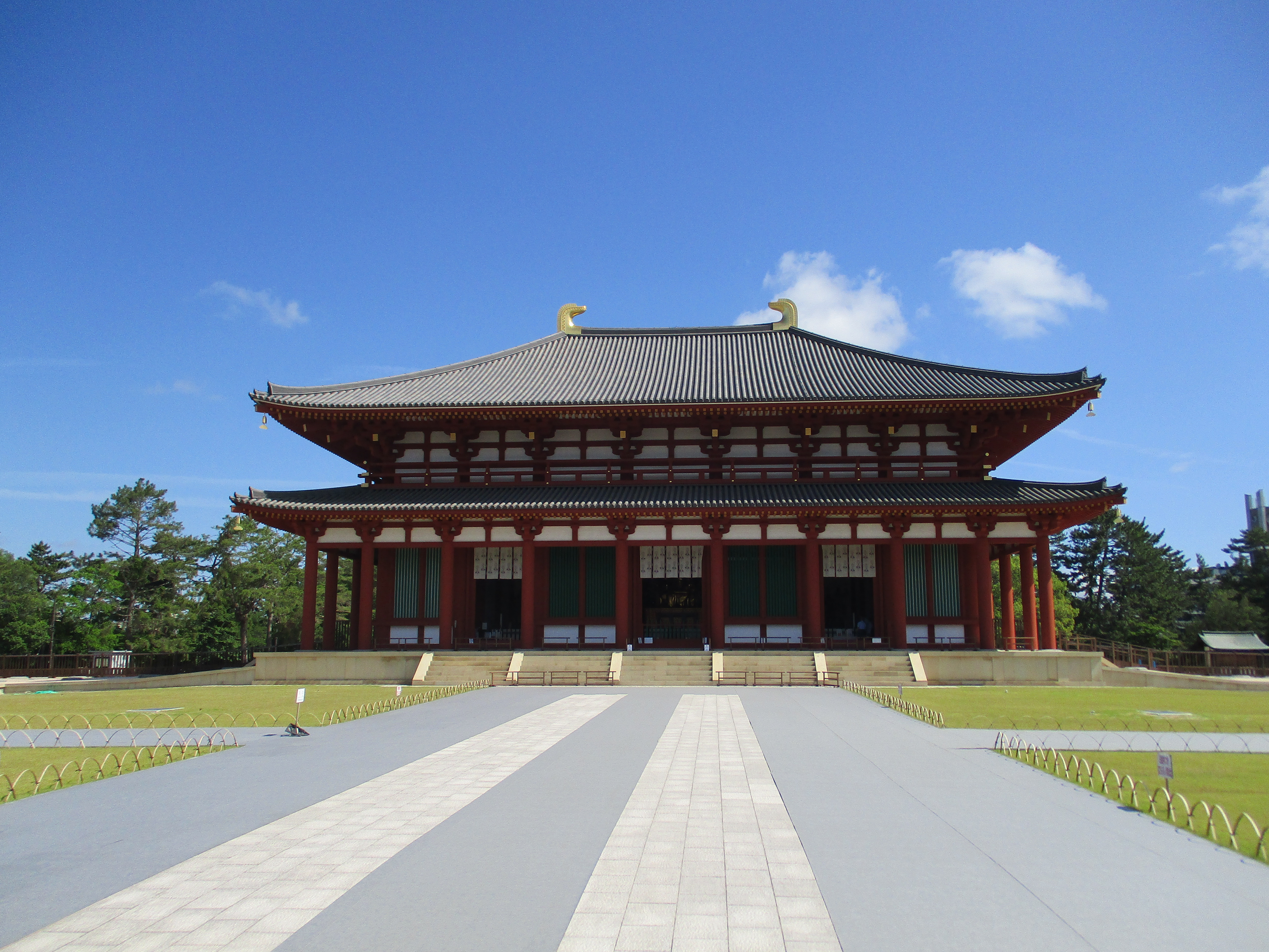 Kofukuji Chukondo, Nara, June 2019